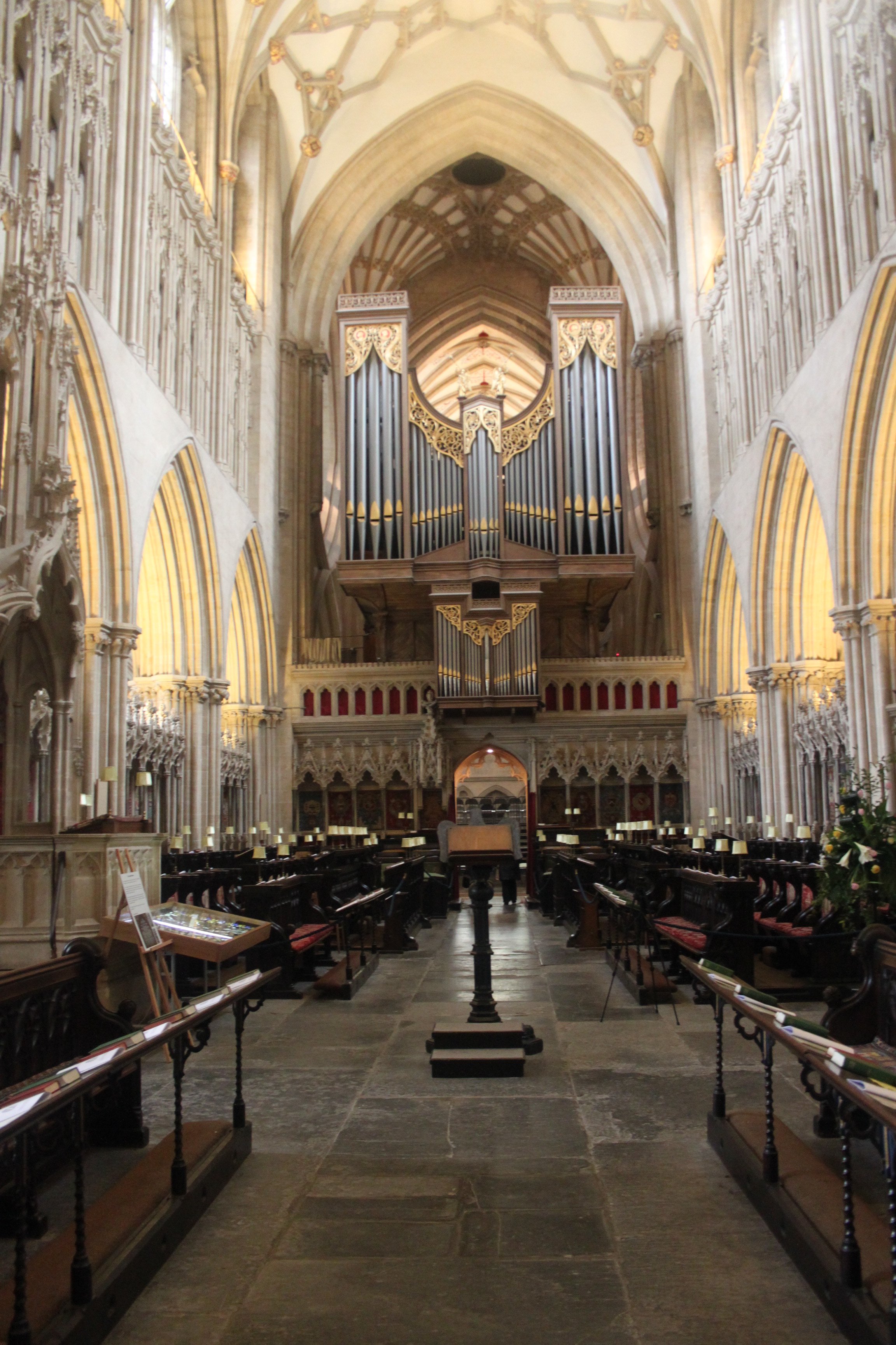 The Choir and organ at Wells Cathedral